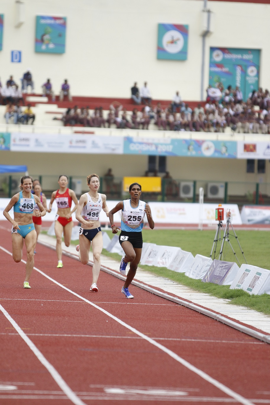 Archana Adhav picture taken at the 2017 Asian Athletics Championships in July 2017 in Bhubaneshwar. 468 is Tatyana Neroznak, 165 is Song Tingting, 255 is ARCHANA ADHAV and 498 is Shin Somang